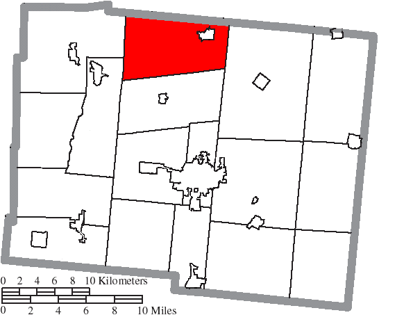 Map of the municipal and township boundaries of Logan County, Ohio, United States, as of the 2000 census, with the location of Richland Township highlighted. Township borders are shown only in unincorporated areas in order to differentiate incorporated and unincorporated areas more clearly.